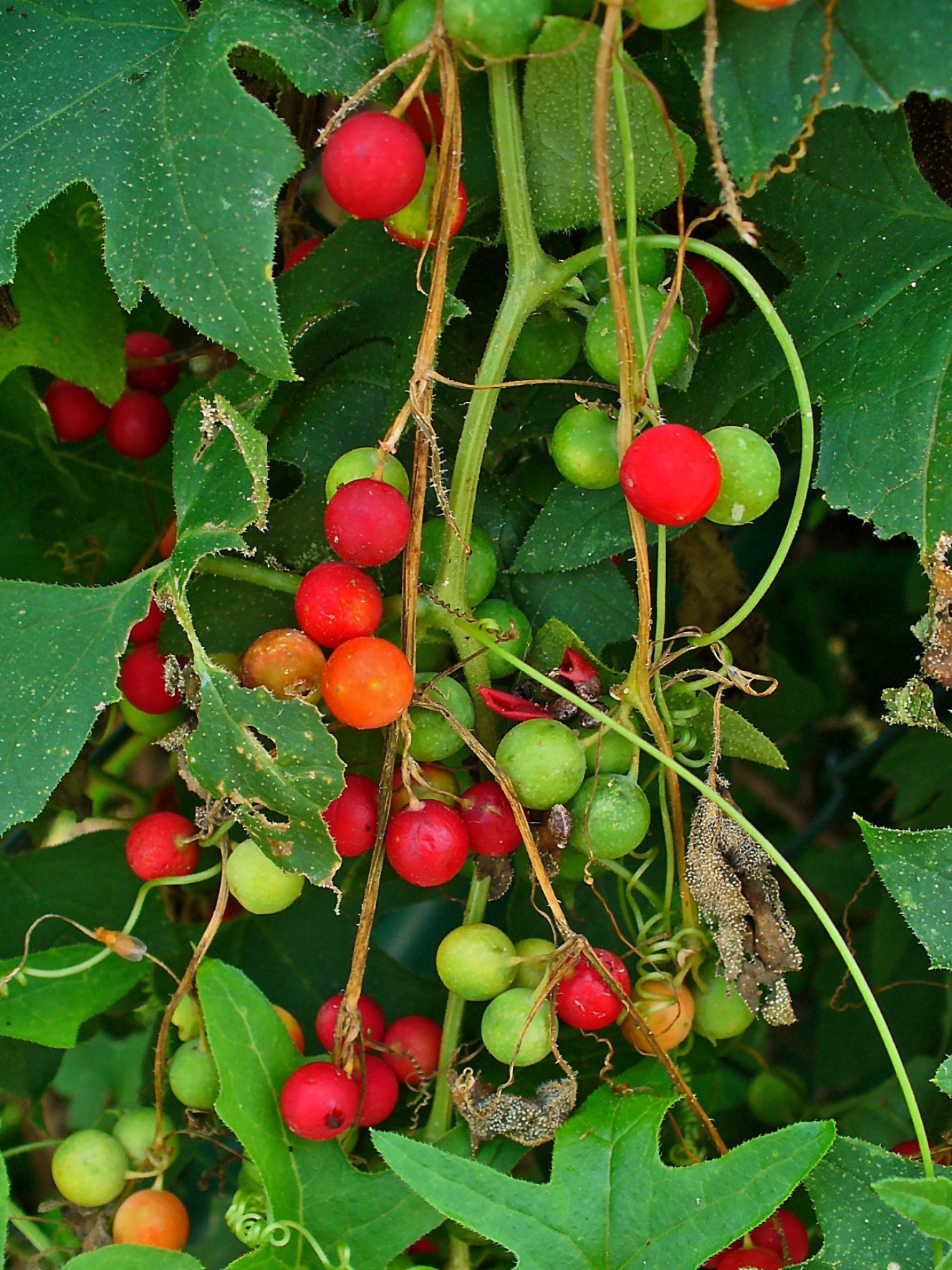 Bryonia dioica, Cucurbitaceae, White Bryony; fruit. Karlsruhe, Germany.